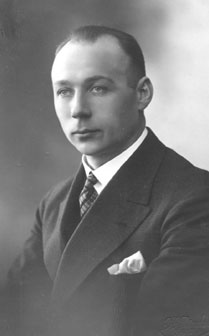 Johannes Riives